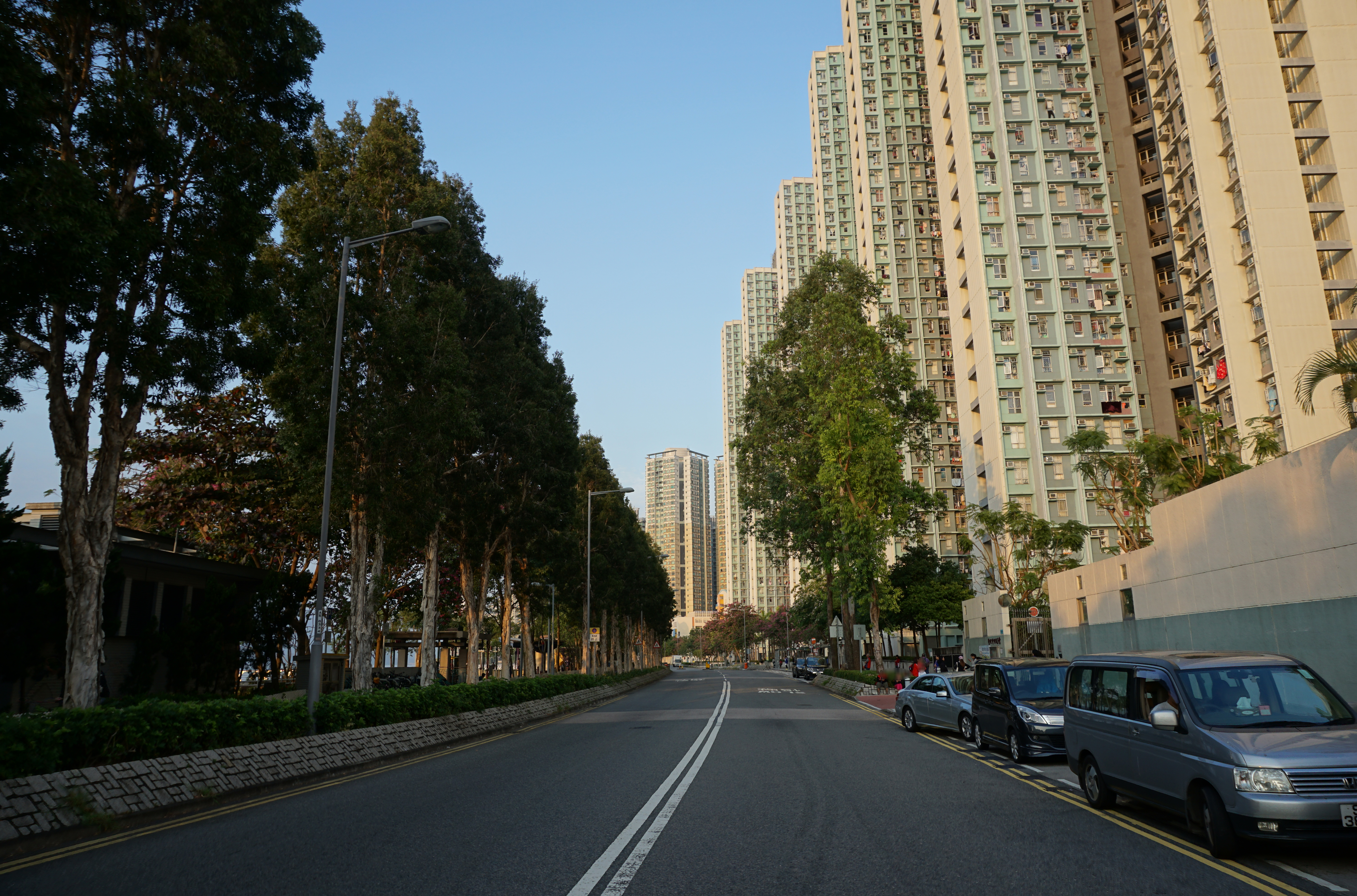 Ning Tai Road in Ma On Shan, Hong Kong.